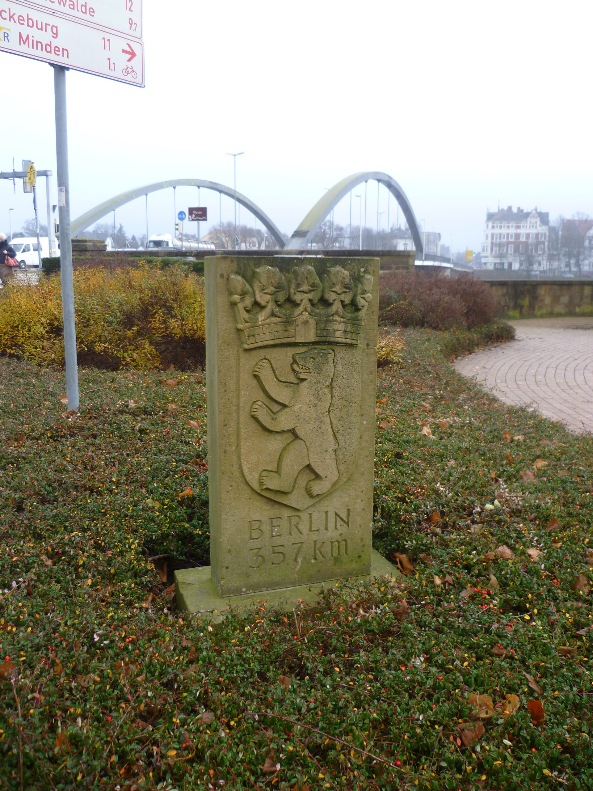 This image shows a heritage building in Germany, located in the North Rhine-Westphalian city Minden (no. 714).